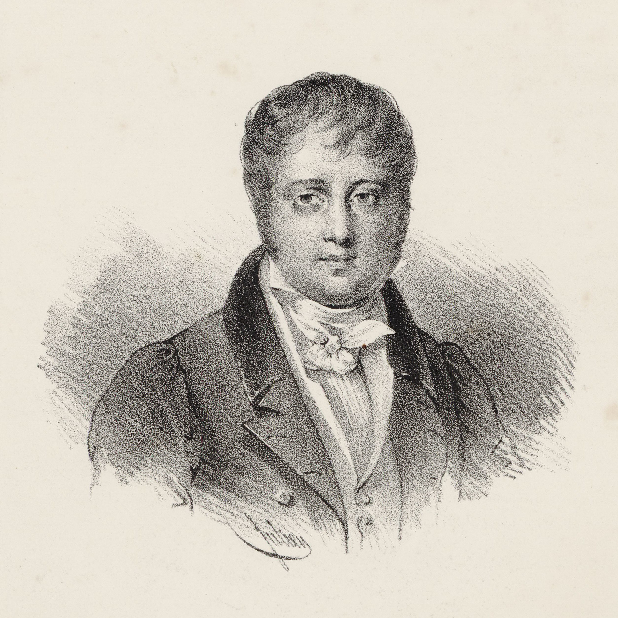 Maltese/French composer Nicolas Isouard (1775-1818).